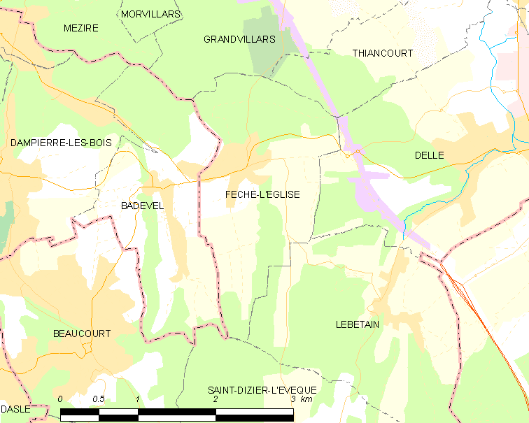 Map of French municipality Fêche-l'Église